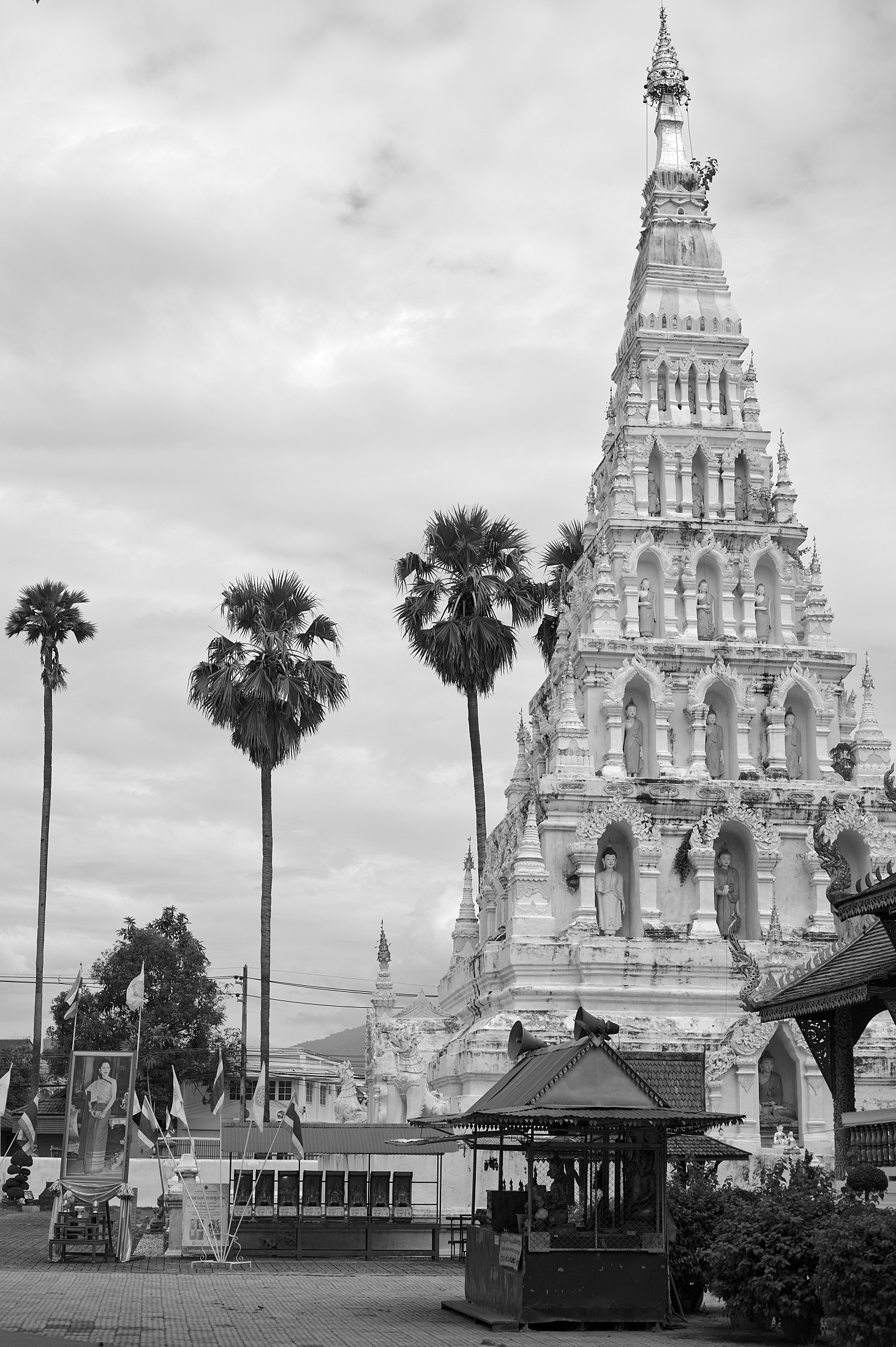 Full height view of the stupa known as Chedi Liam, itself an ancient replica of a similar structure in Lamphun (then Haripunchai), from the Mon period, located in Wat Chedi Liam (formerly known as Wat Kum Kham), part of the Wiang Kum Kam archaeological site, Chiang Mai, northern Thailand. Foreground included for scale.